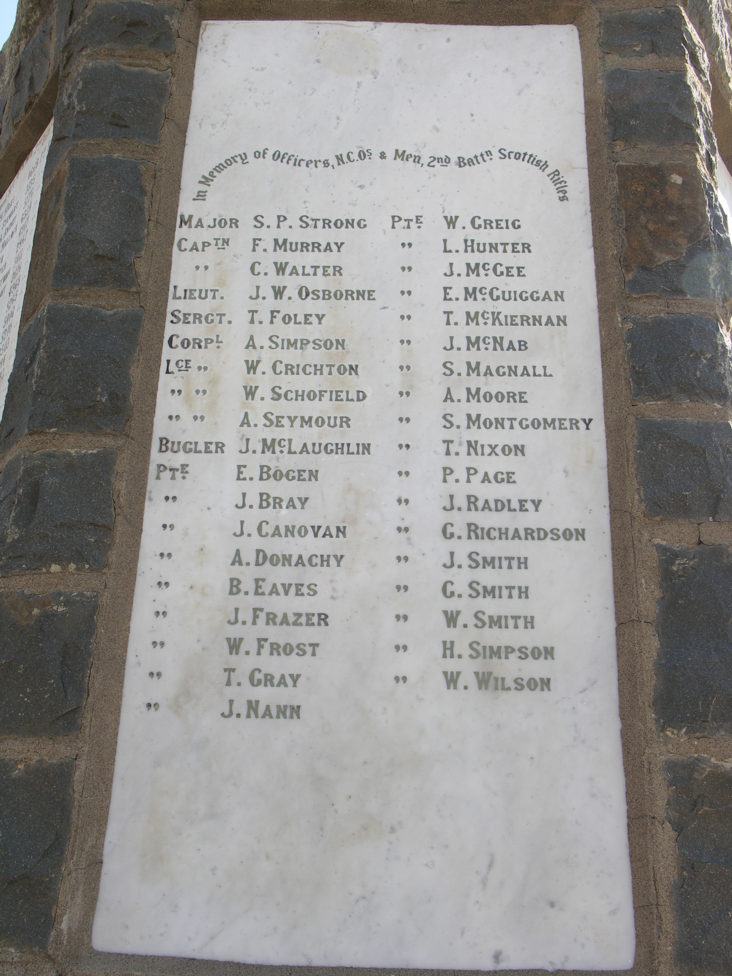 Face 5 on the British Memorial at Spion Kop. Dedicated to the Scottish Rifles Erected by the 17th Field Company Royal Engineers 2nd Battalion The King's Own Royal Lancaster Regiment 2nd Battalion Lancashire Fusiliers 2nd Battalion Scottish Riflemen 2nd Battalion Middlesex Regiment Natal Volunteer Ambulance Corps